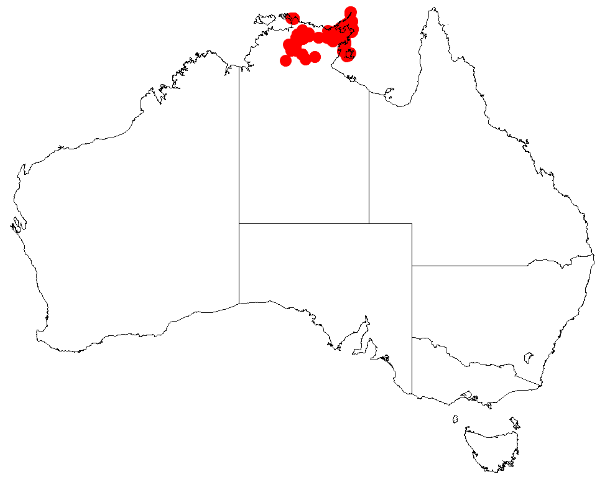 Wikispecies has an entry on: Acacia yirrkallensis. Occurrence data from Australasia Virtual Herbarium downloaded from on 8 December 2018